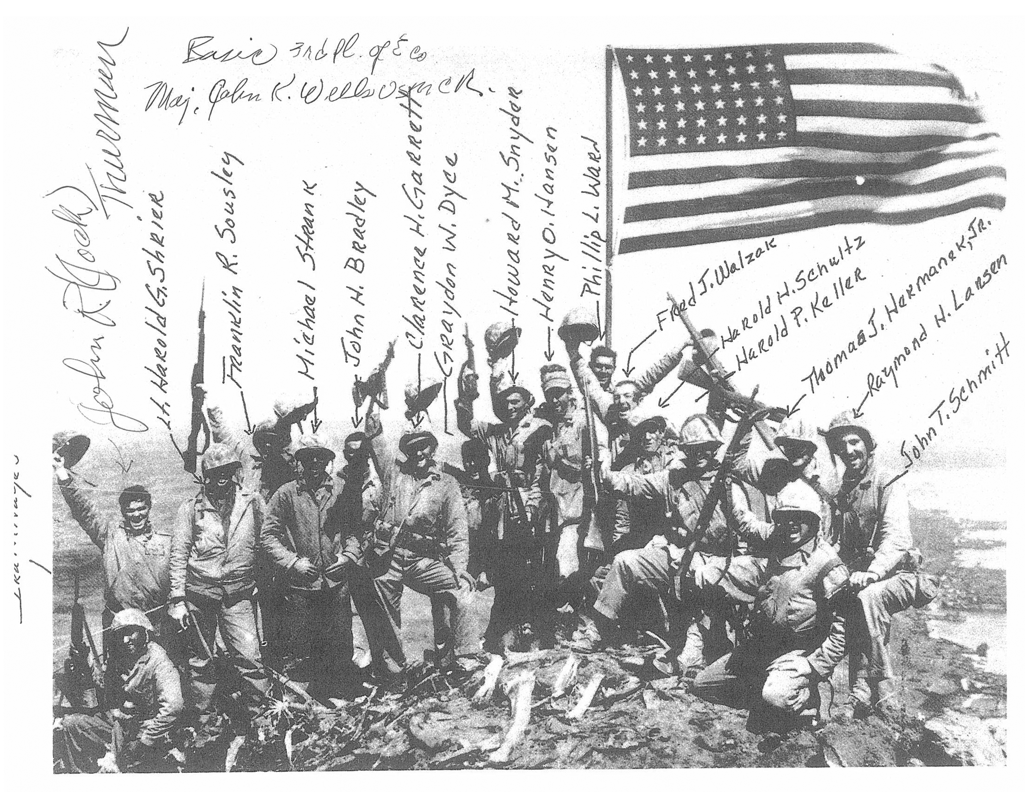 Eighteen young Marines stand atop Mt. Suribachi, Feb. 23, 1945, for a photo taken by Joe Rosenthal. The picture became known as the “Gung Ho” photo. Thurman is standing on the far left with his helmet in the air behind Cpl. Ira Hayes.